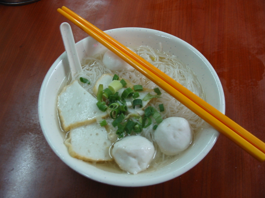 Rice vermicelli with fishballs.